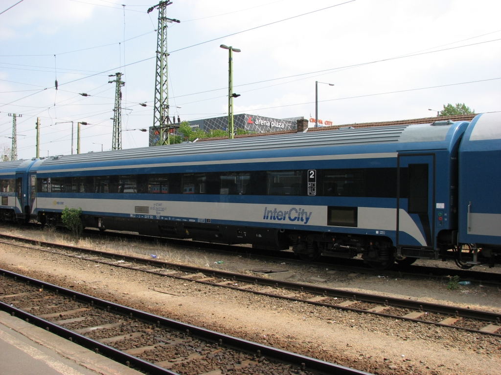 MÁV IC3 passanger coaches